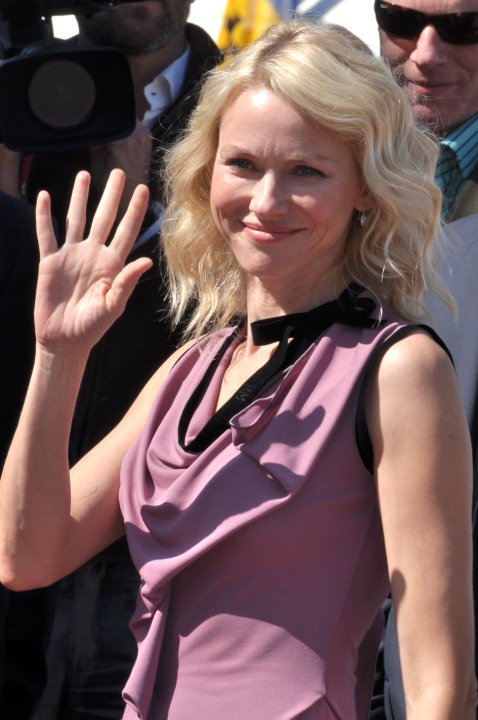 Naomi Watts at the Cannes film festival